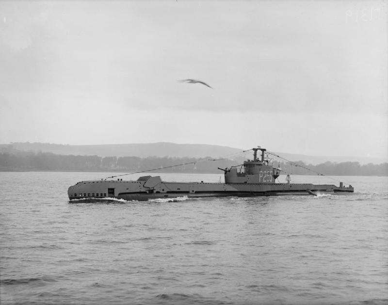 British S class submarine HMSM SENESCHAL underway on the Clyde.